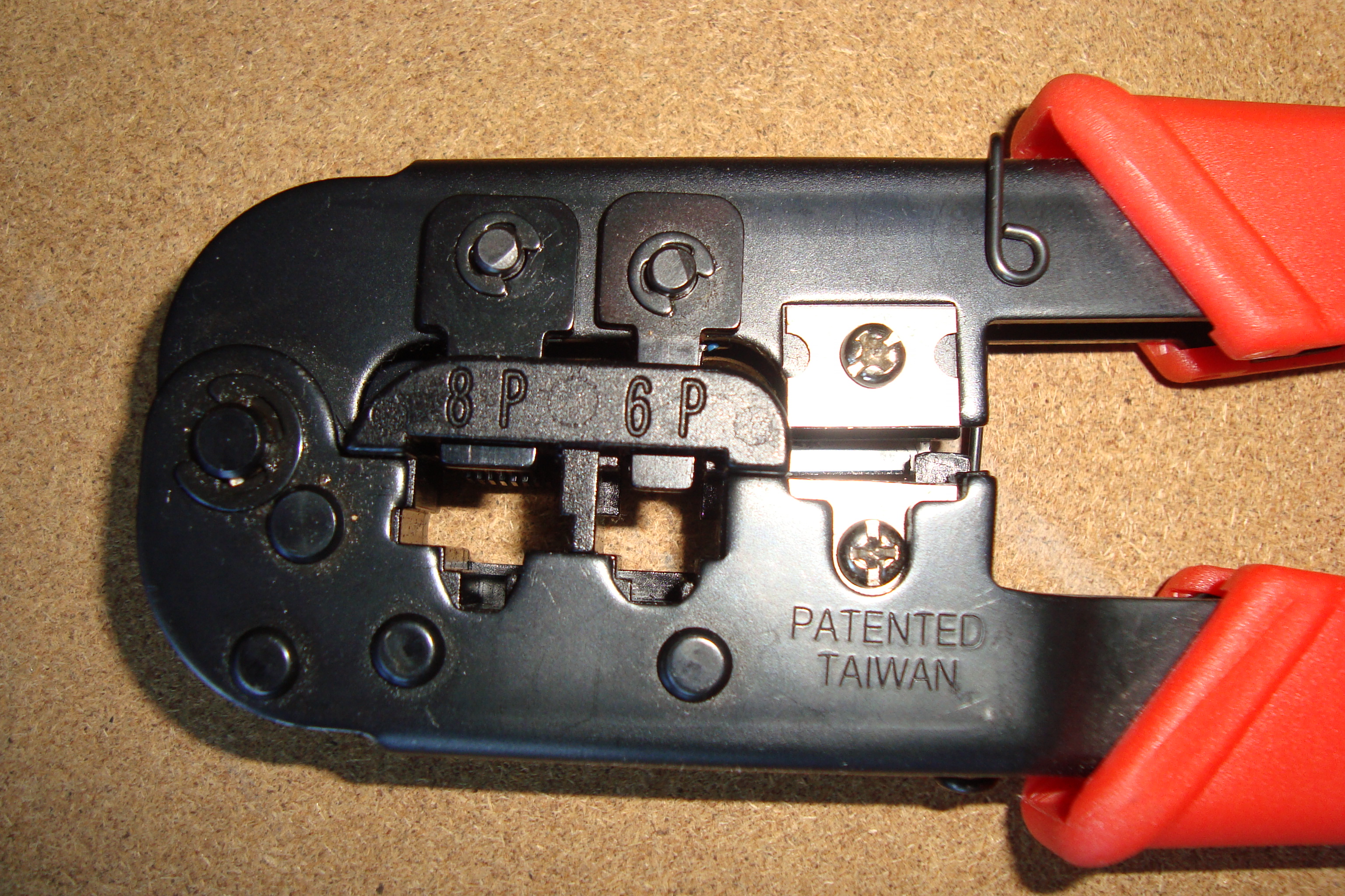 Work part of crimper